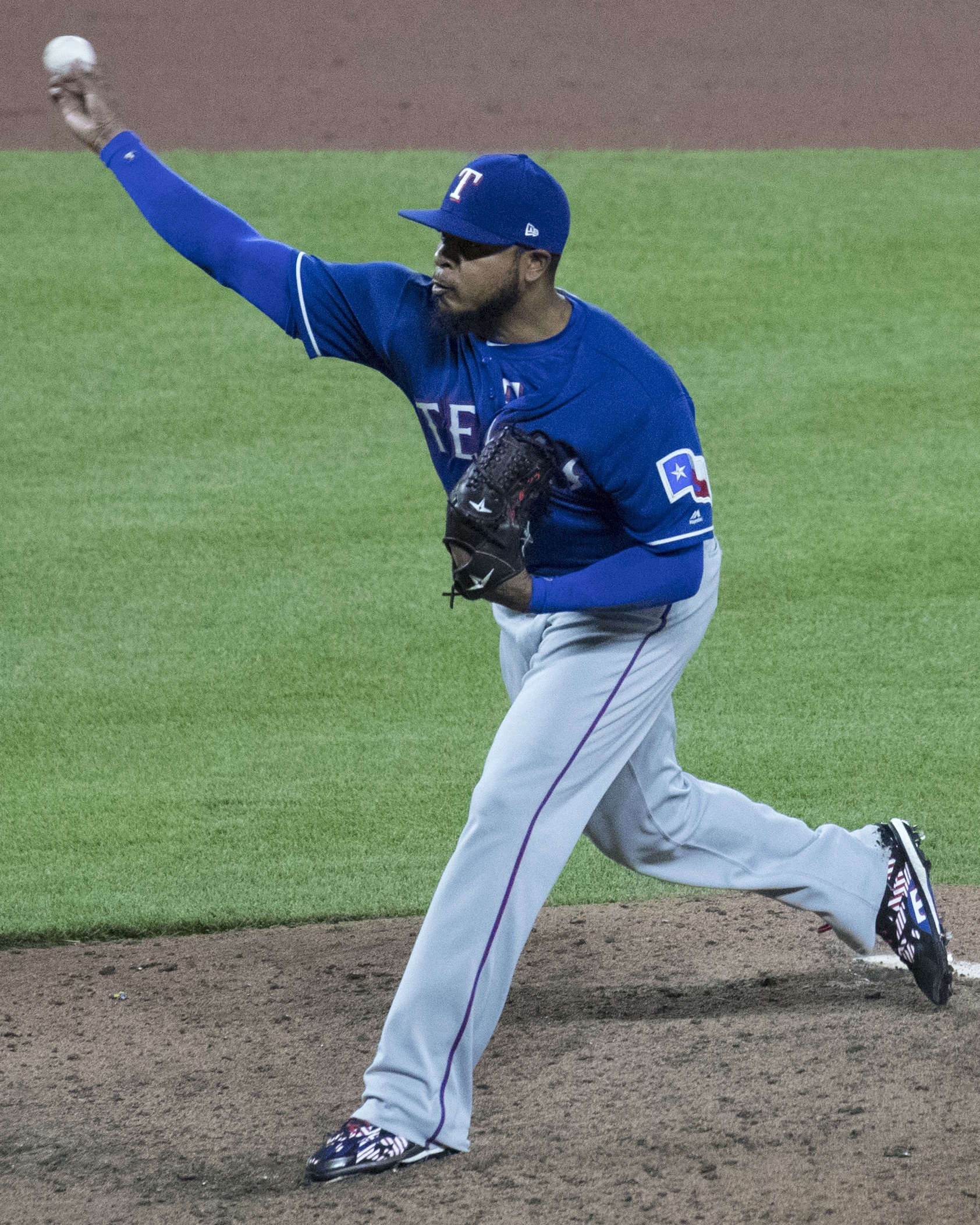 Rangers at Orioles 7/17/17